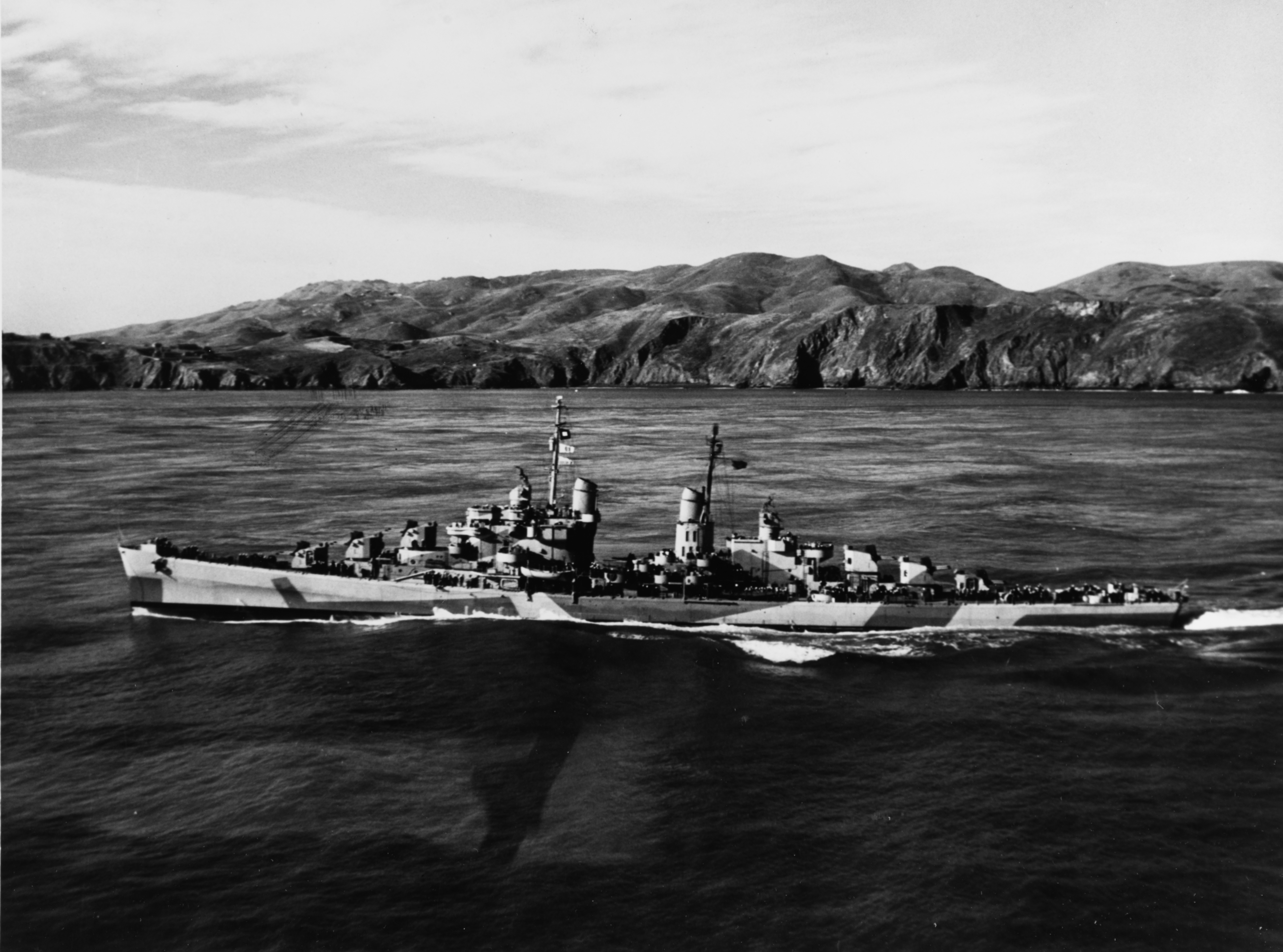 The U.S. Navy light cruiser USS Reno (CL-96) underway off California (USA), 25 January 1944.